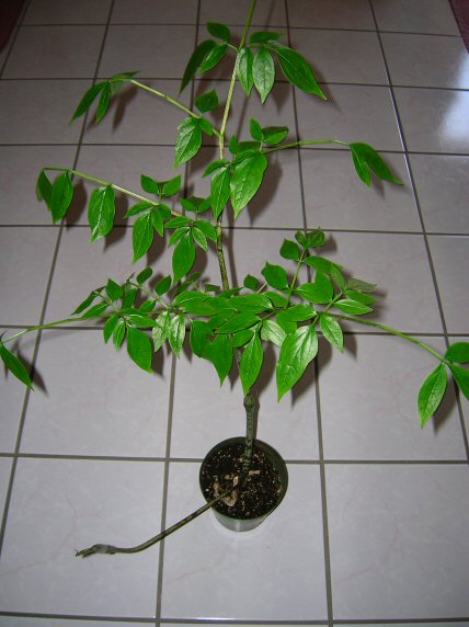 Gonatopus boivinii with flower bud.